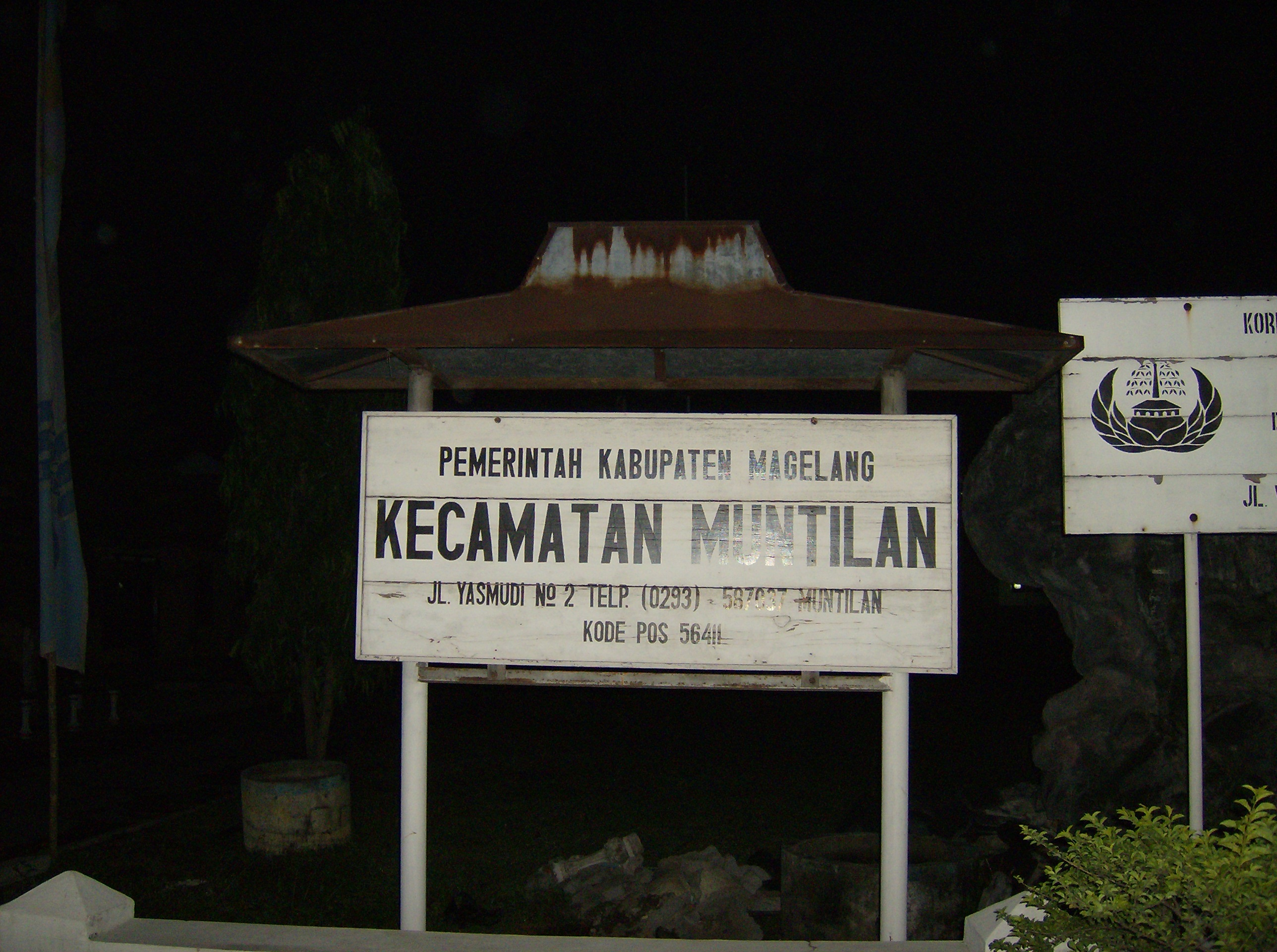 Kecamatan Muntilan (which in turn is in Kabupaten Magelang) office signboard taken at night time